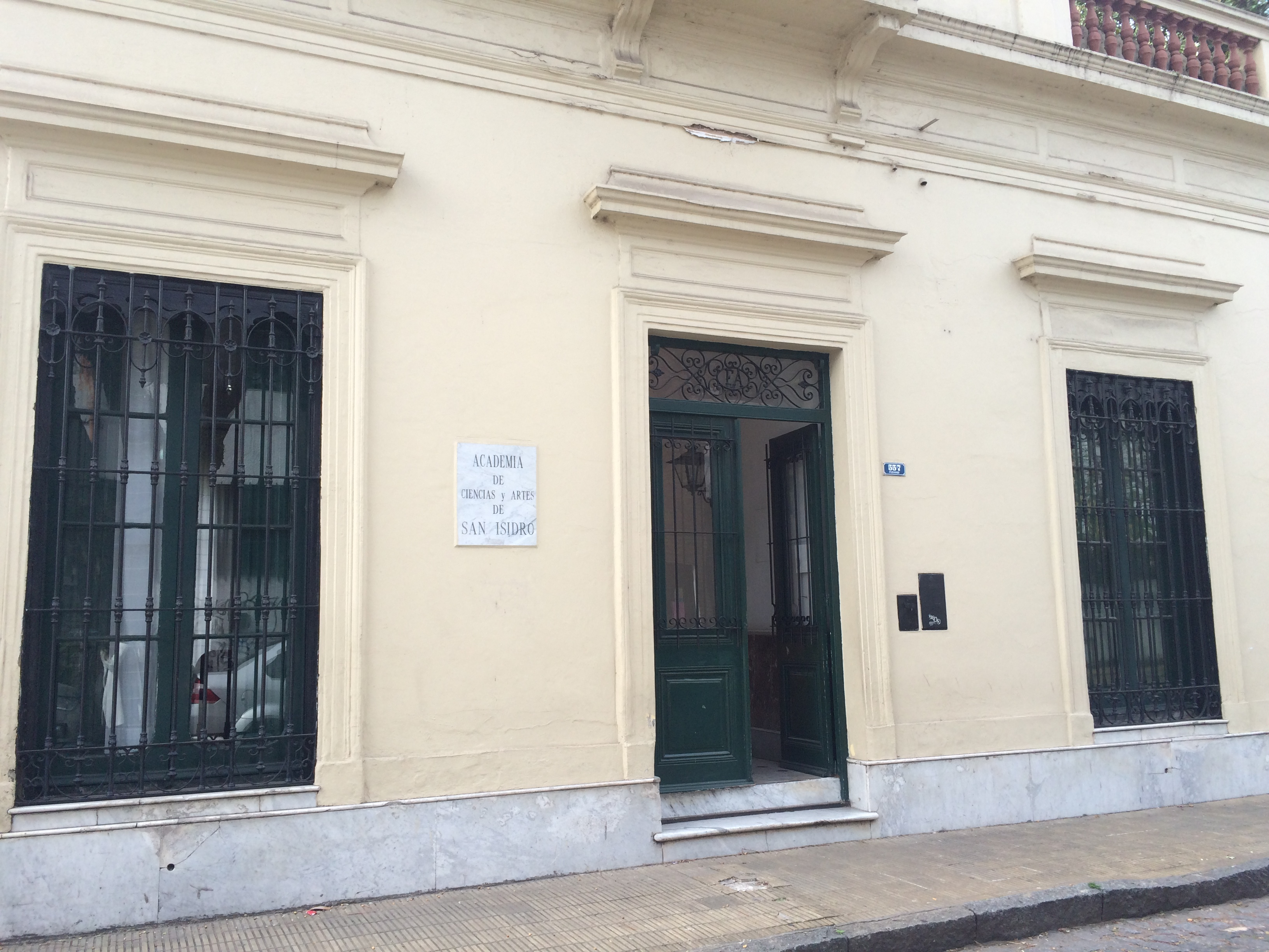 Front door from the street Ituzaingo